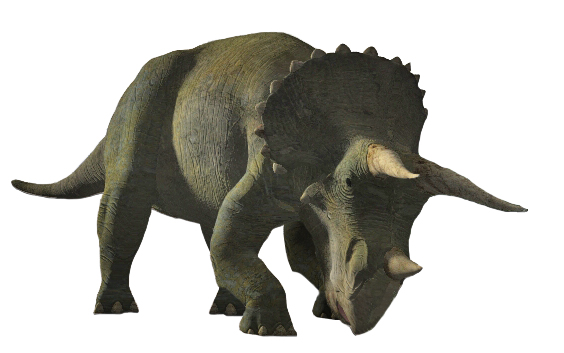 Triceratops